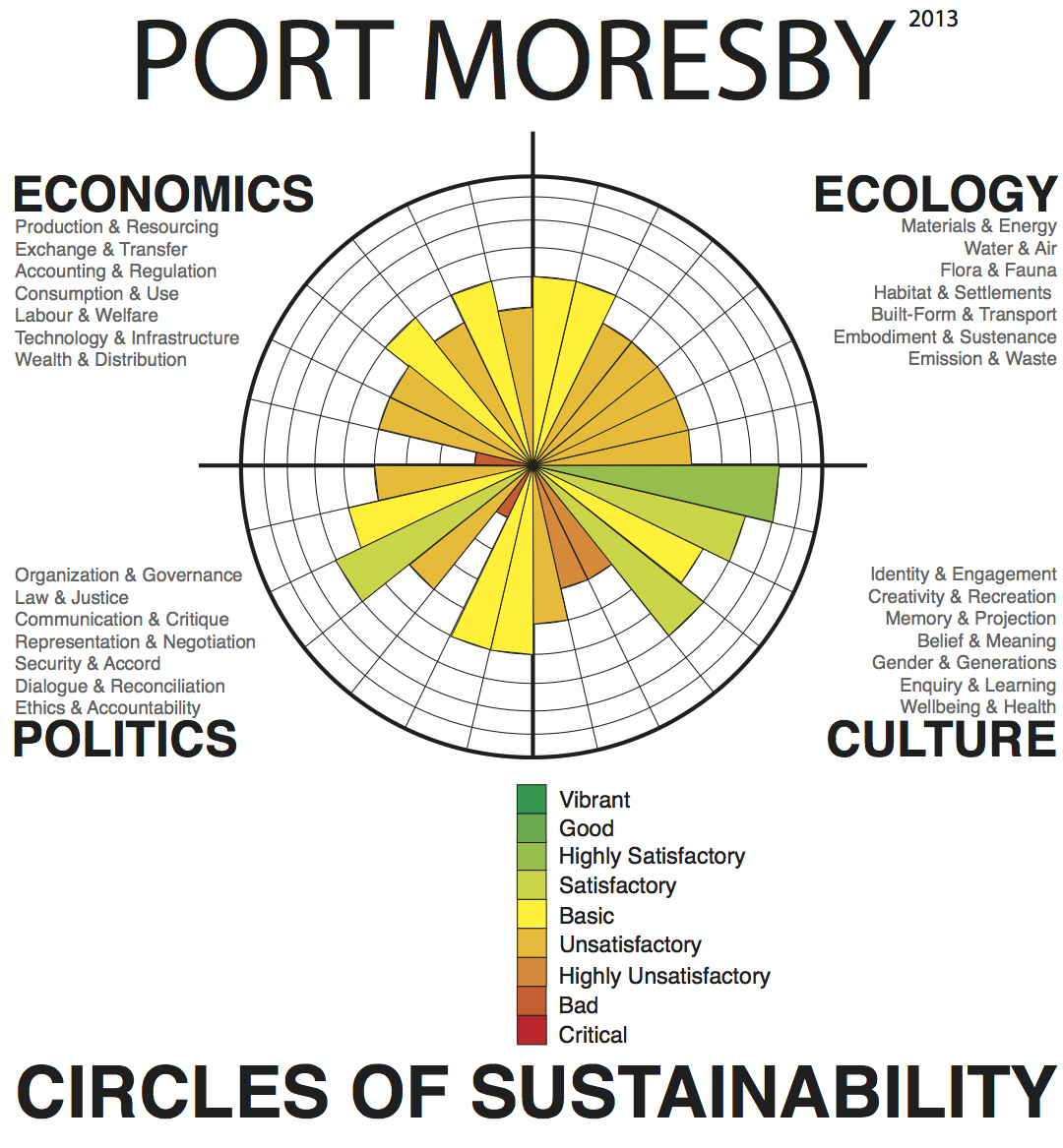 Urban sustainability analysis of the greater urban area of the city using the 'Circles of Sustainability' method of the UN Global Compact Cities Programme